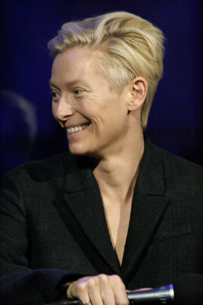 Tilda Swinton talking with the audience during the Vienna International Film Festival 2009.